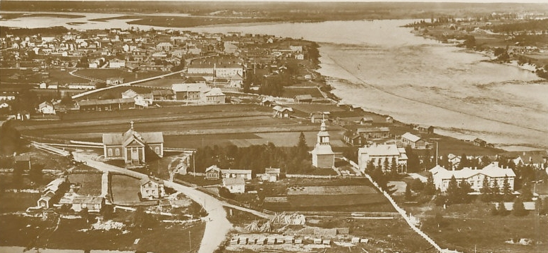 Rovaniemi, Finland from air.